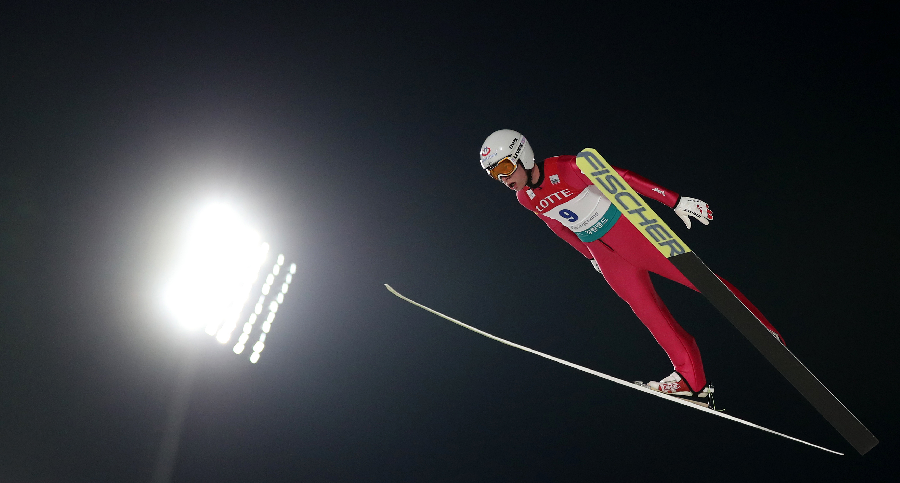 FIS Nordic Combined World Cup February 4, 2017 Alpensia Cross-Country Center, Pyeongchang-gun, Gangwon-do Ministry of Culture, Sports and Tourism Korean Culture and Information Service ( Official Photographer : Jeon Han This official Republic of Korea photograph is being made available only for publication by news organizations and/or for personal printing by the subject(s) of the photograph. The photograph may not be manipulated in any way. Also, it may not be used in any type of commercial, advertisement, product or promotion that in any way suggests approval or endorsement from the government of the Republic of Korea. FIS 노르딕컴바인 월드컵 2017-02-04 알펜시아 크로스컨트리 센터 문화체육관광부 해외문화홍보원 코리아넷 전한